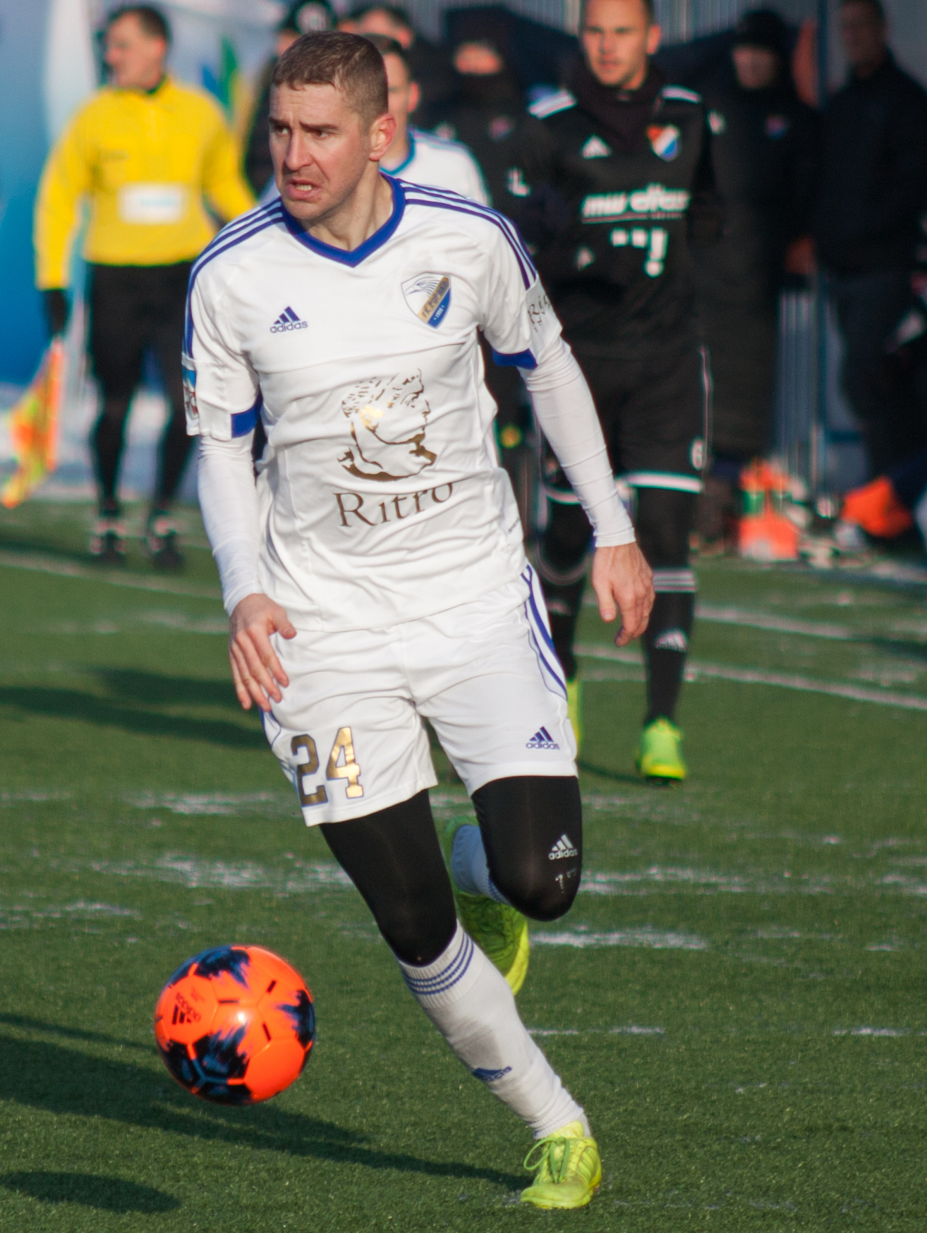 Czech Winter Tipsport League match FC Baník Ostrava-FK Poprad played on 11 January 2019